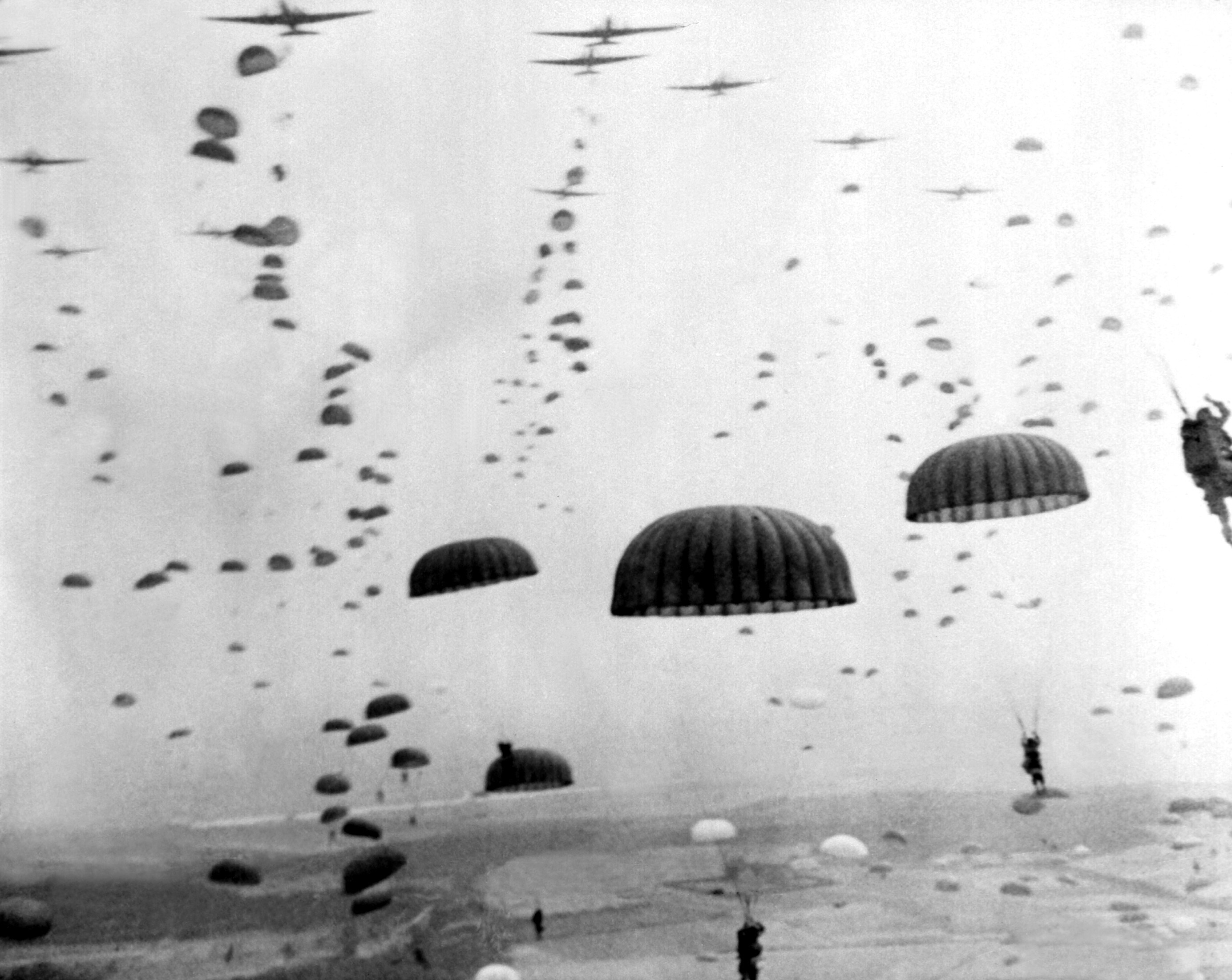 Parachutes open overhead as waves of paratroops land in Holland during operations by the 1st Allied Airborne Army. September 1944. (Army) Exact Date Shot Unknown NARA FILE #: 111-SC-354702 WAR & CONFLICT BOOK #: 1066